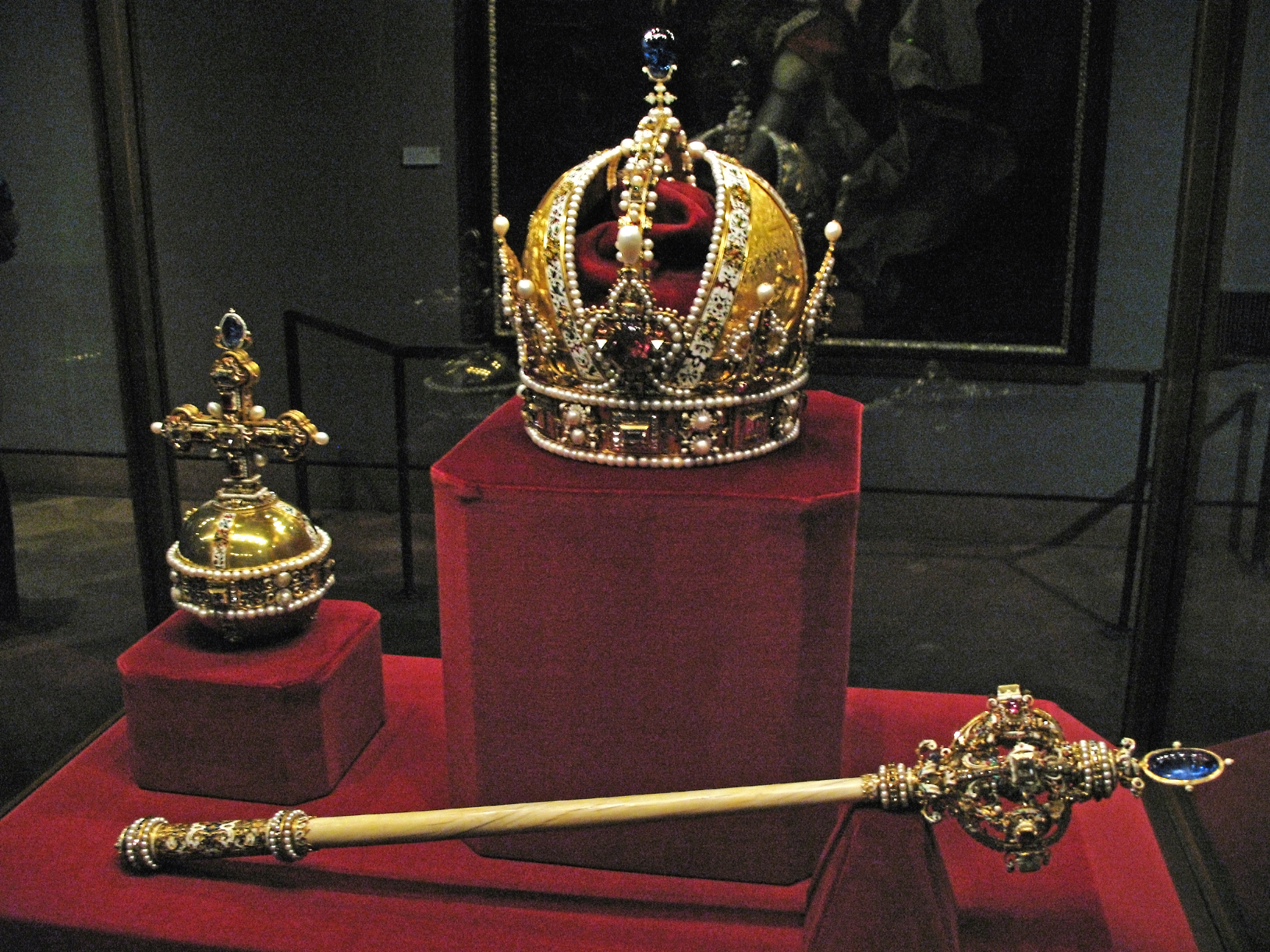 Imperial Crown, Scepter, and Globus Cruciger, Imperial Treasury, Vienna, Austria